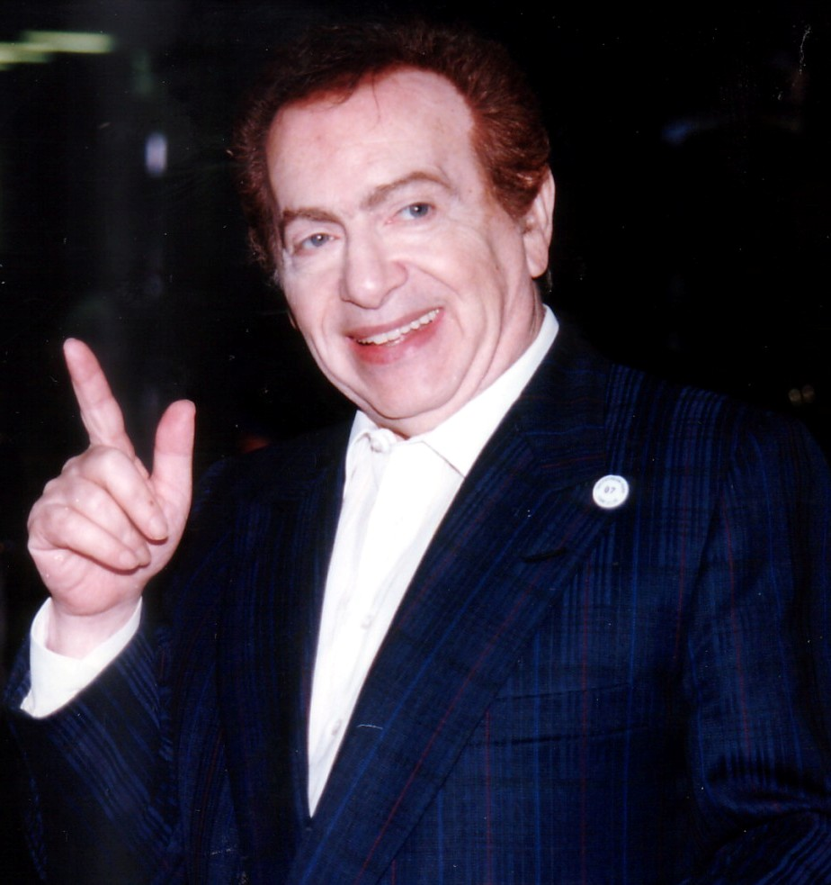 Jackie Mason at Gulfstream Park, Hallandale, FL